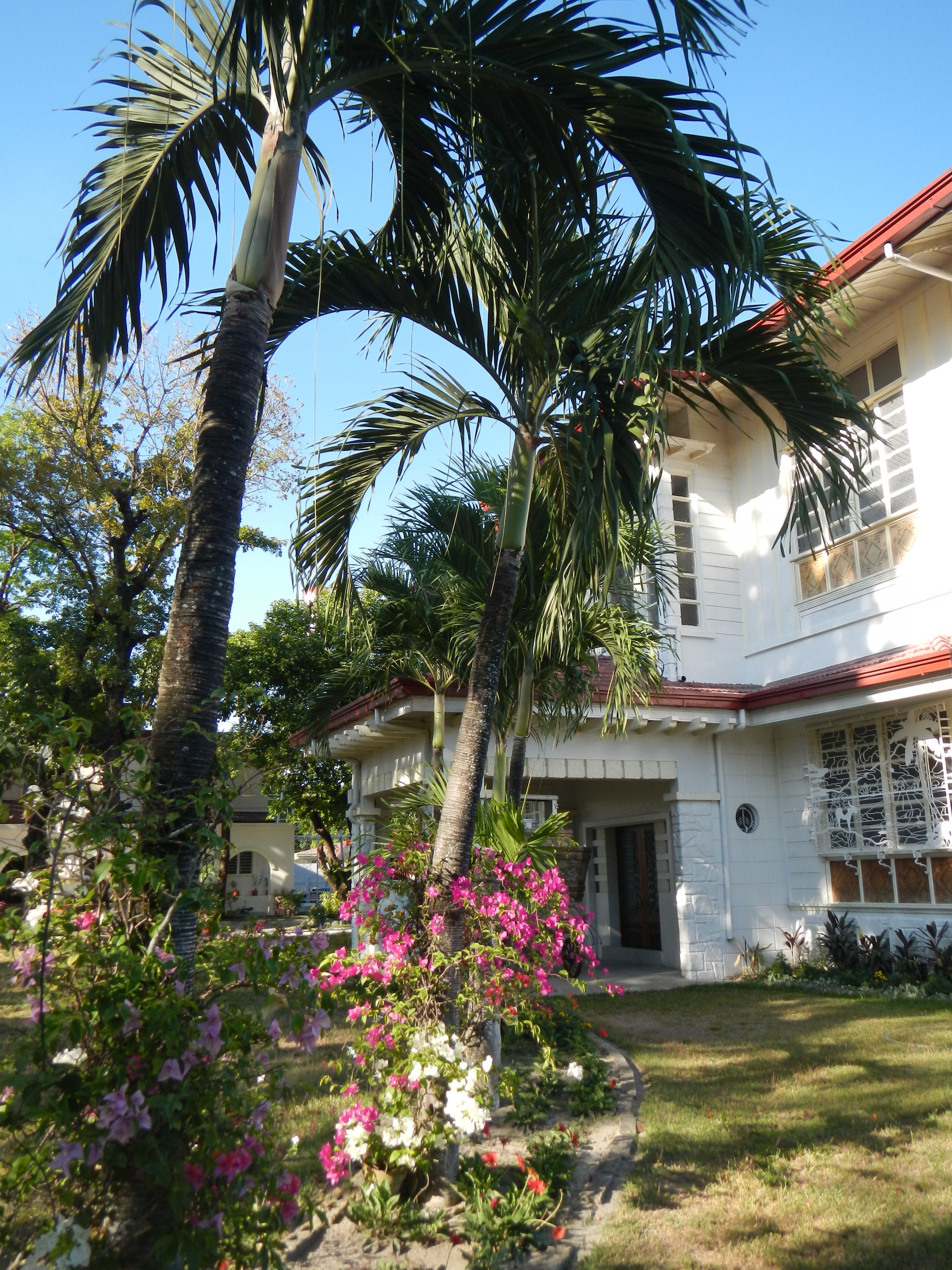 Aquino Family Ancestral House-Concepcion Tarlac - Aquino family ancestral house in Concepcion, Tarlac. Aquino unveils historical marker at ancestral home in Tarlac September 10th, 2011[1] The National Historical Commission declared the Aquino house as a historical site in 1987 because of its significance as the home of patriots from the Aquino family based on its Board Resolution No. 1 Series of 1987. Three generations of Aquinos lived in the house since it was built in 1939, according to Malacañang.[2][3] 72-year-old house[4] Ancestral houses of the Philippines[5] Concepcion, Tarlac[6] Benigno Aquino, Jr.[7]Benigno Simeon Aquino III [8] Benigno Aquino, Sr. [9]